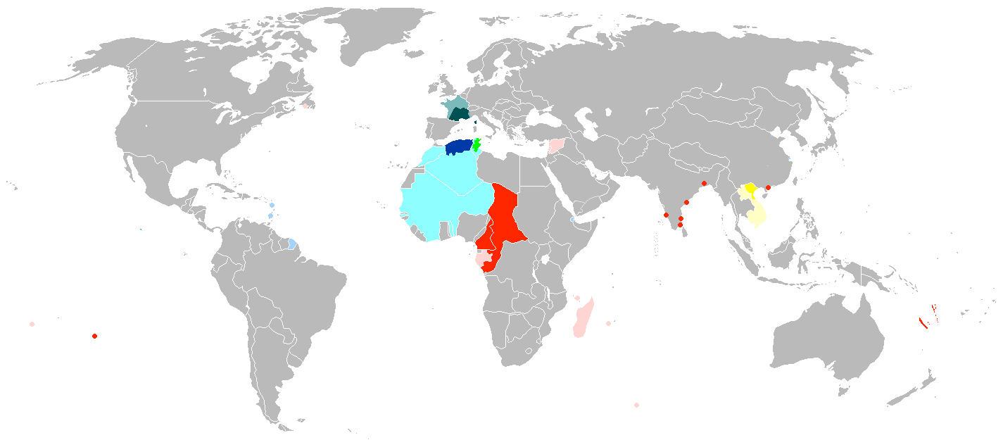 Map of Vichy France and the loss of its territory to Free France and the Axis powers. Legend: Colonies under the control of Free France by September 1940 Colonies under the control of Free France by November 1942 Colonies under the control of Free France in November 1942 after Operation Torch Metropolitan France (French Algeria) under the control of Free France in November 1942 after Operation Torch Metropolitan france (zone libre) under Vichy control until occupied by the Axis in November 1942 after Operation Torch (with Corsica under the control of Free France in September 1943). Colony occupied by the Axis (French Tunisia) in November 1942 after Operation Torch, under the control of Free France by May 1943 Colonies under the control of Free France by July 1943 (French Somaliland and French West Indies) French Indochina colony (Tonkin) under Japanese occupation by September 1940. Rest of French Indochina under Japanese and Thai occupation by July 1941. Occupied metropolitan France under Axis control (German zones and Italian zones) after the fall of the Third Republic in June 1940, under Free French control by August 1944.